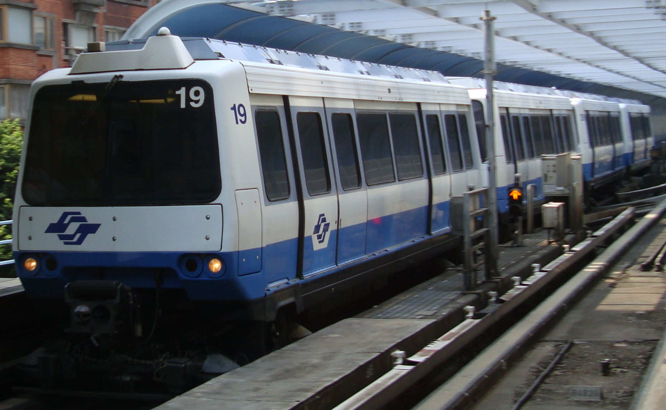 Taipei MRT VAL256 About to enter Zhongshan Junior High School Station.